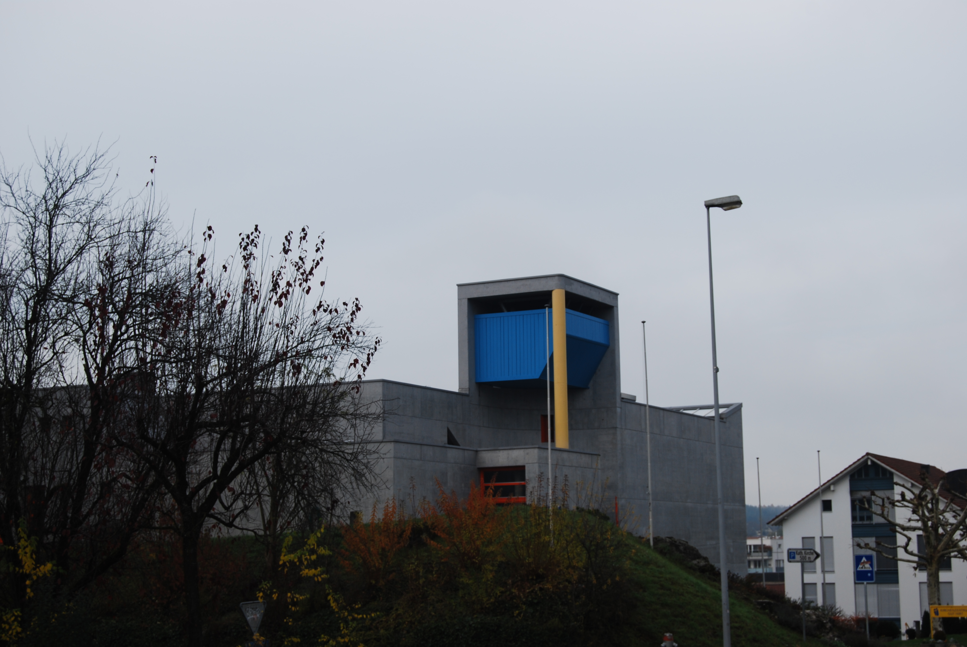 Church center Gut Hirt at Niederrohrdorf, canton of Aargau, SwitzerlandEsperanto: Eklezia centro Gut Hirt en Niederrohrdorf, Kantono Argovio, Svislando